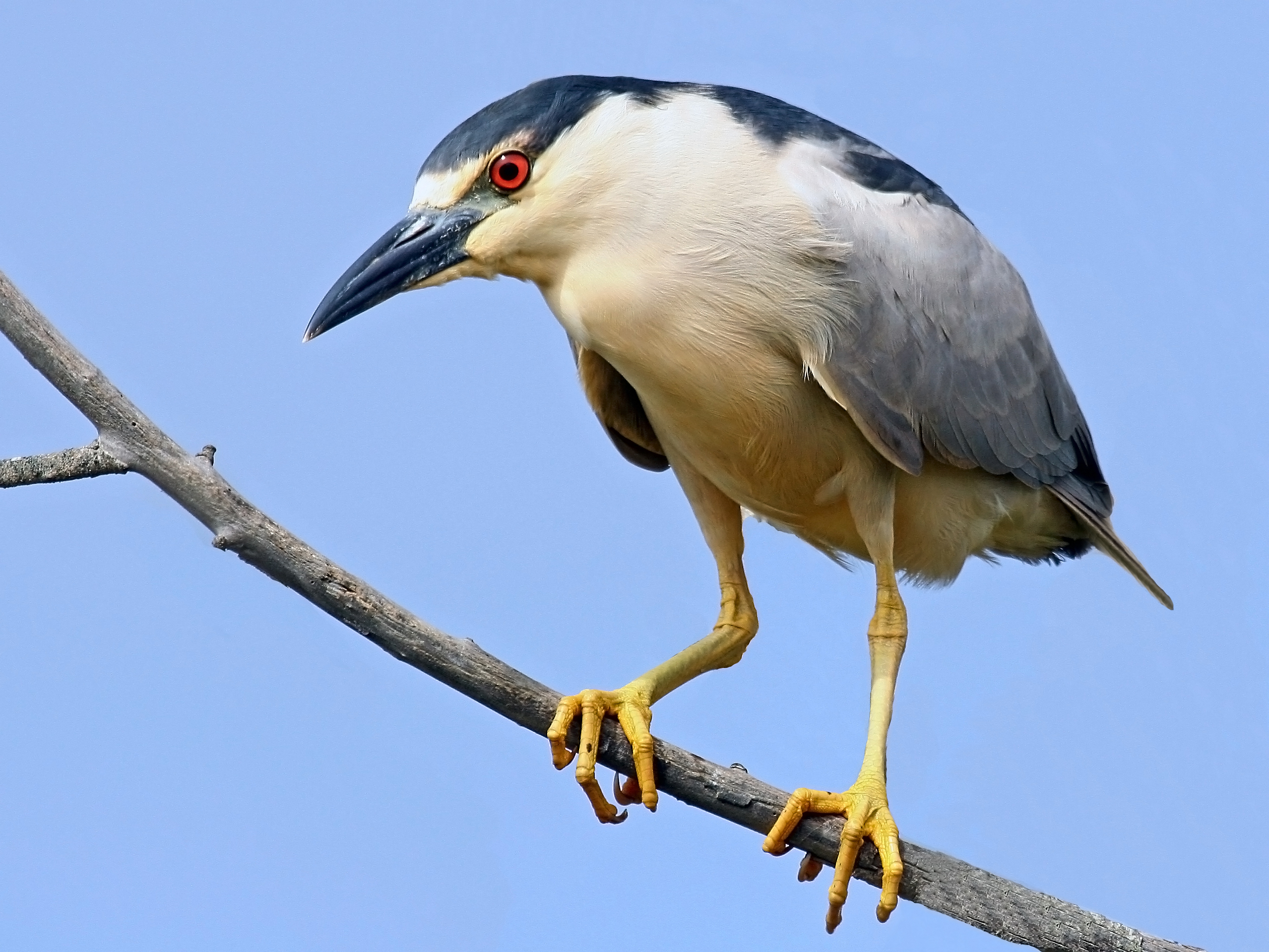 Black-crowned Night Heron Nycticorax nycticorax hoactli, Morro Bay, California